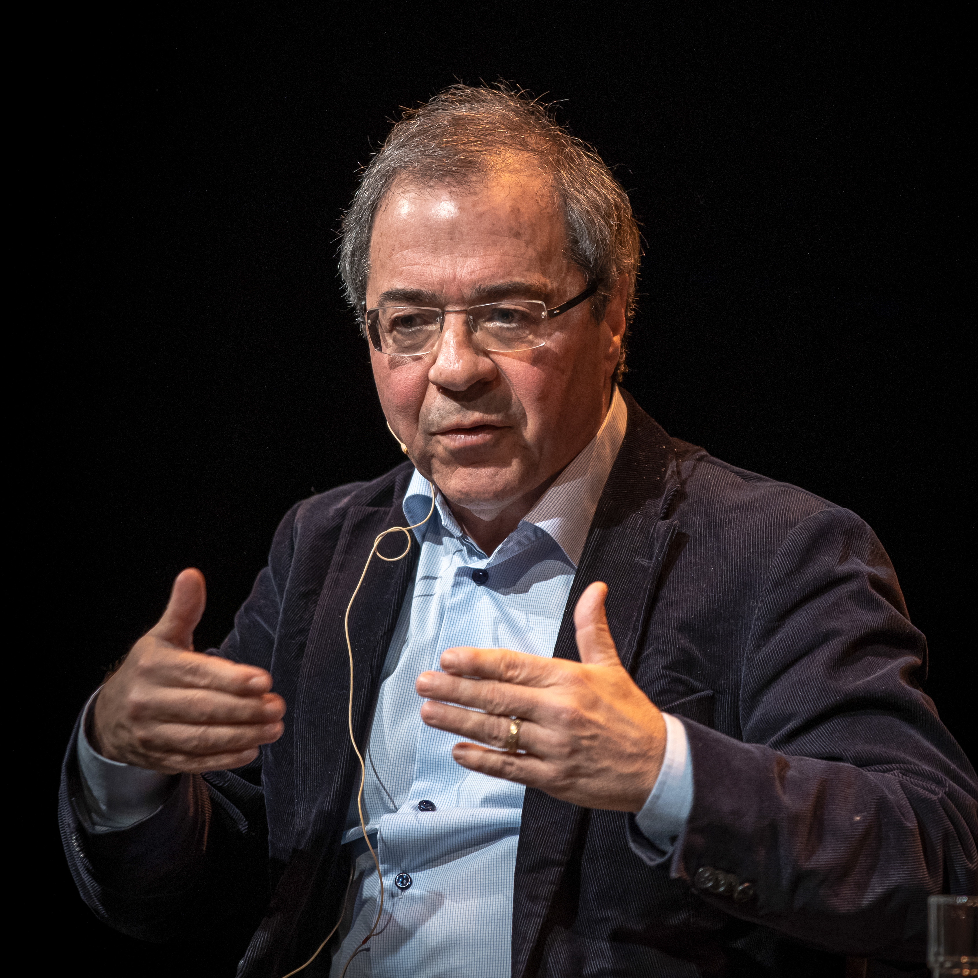 Göran Rosenberg at Gothenburg City Theatre, February 2019